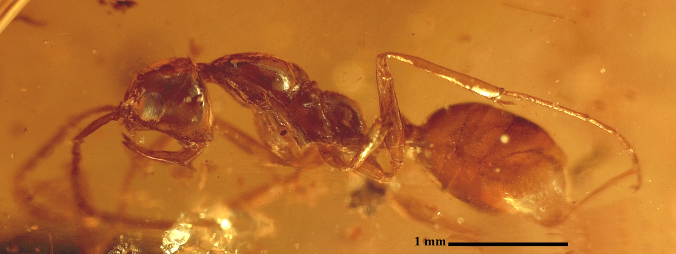 Closeup of the Haidomyrmex zigrasi holotype profile. specimen JZ01